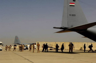 Members of the Iraqi Army board an Iraqi C-130 Hercules for a flight to Basra, Iraq at New Al Muthana Air Base in Baghdad on Mar. 30. All processing, loading and transporting of the Iraqi troops was conducted by the Iraqi Air Force.